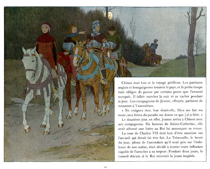 Jeanne d'Arc with brothers goes from Domremi